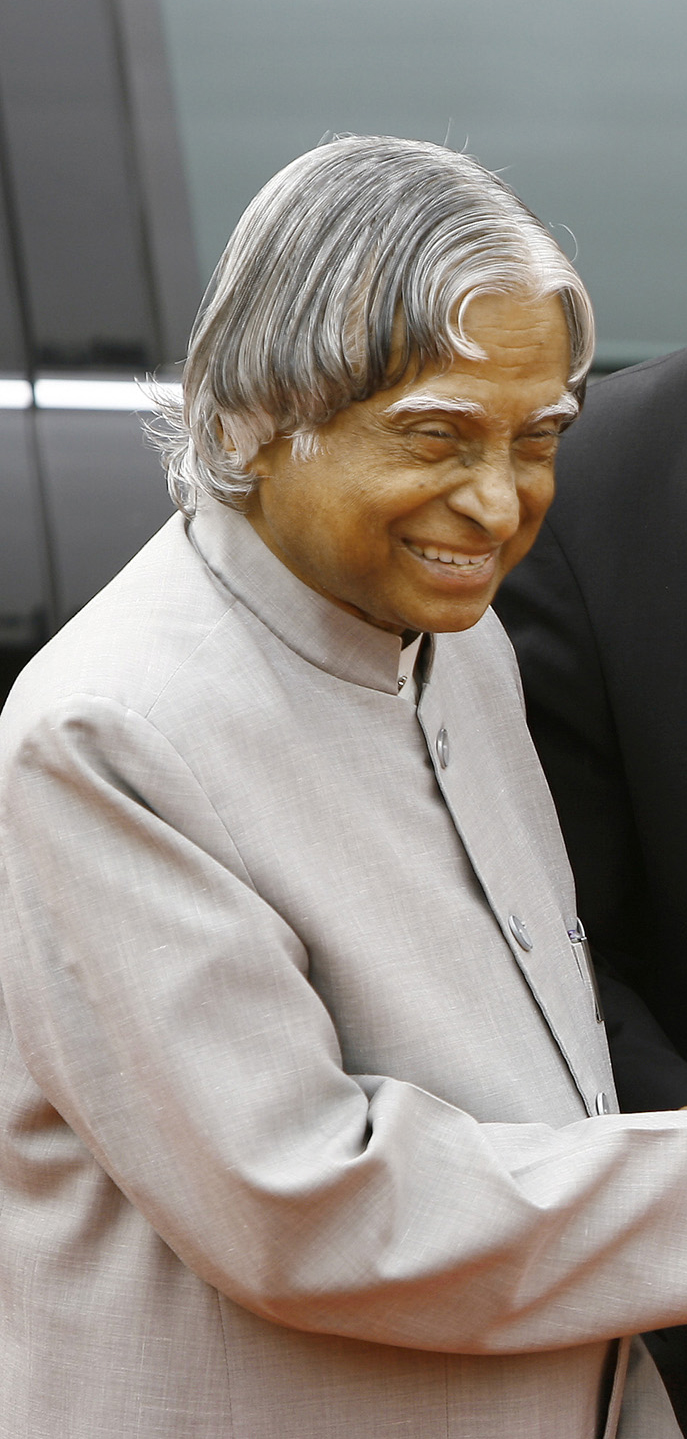 Avul Pakir Jainulabdeen Abdul Kalam, current president of India.